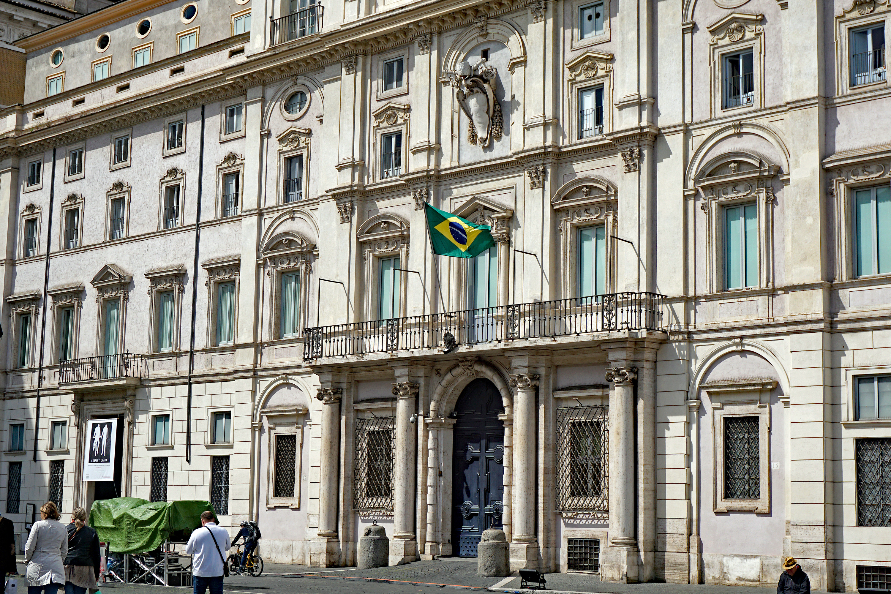 Brazilian Embassy to Italy (Palazzo Pamphilj), Piazza Navona, Rome.